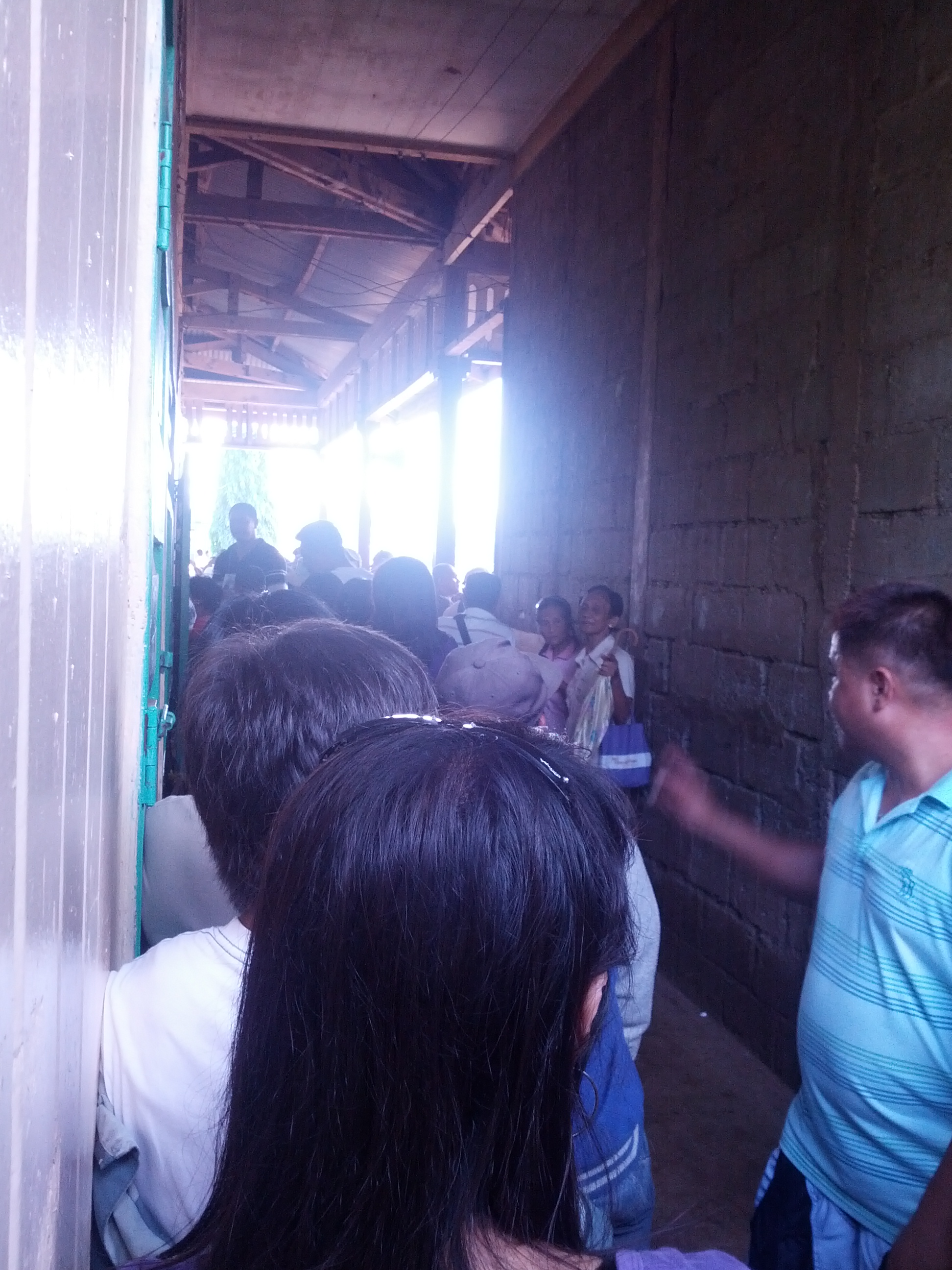 People lined up for voting.